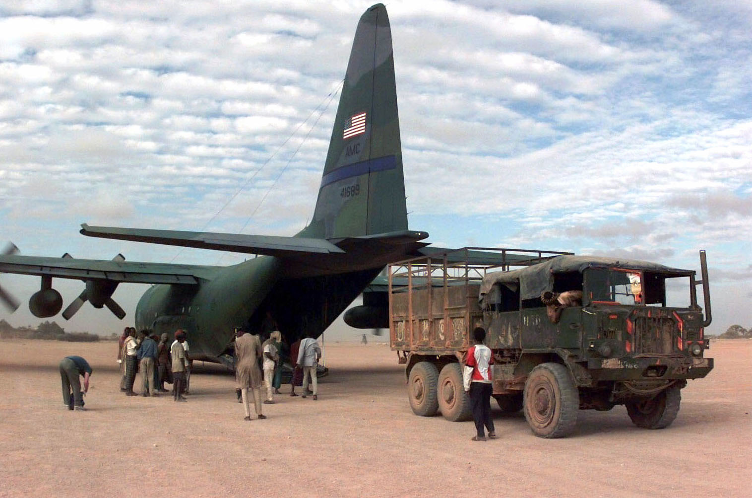 An unidentified Somali cargo truck backs to open rear entrance of an US Air Force C-130 "Hercules" cargo plane. Somali civilians and US Air Force personnel gather at the back entrance of the C-130. This mission is in direct support of Operation Restore Hope.